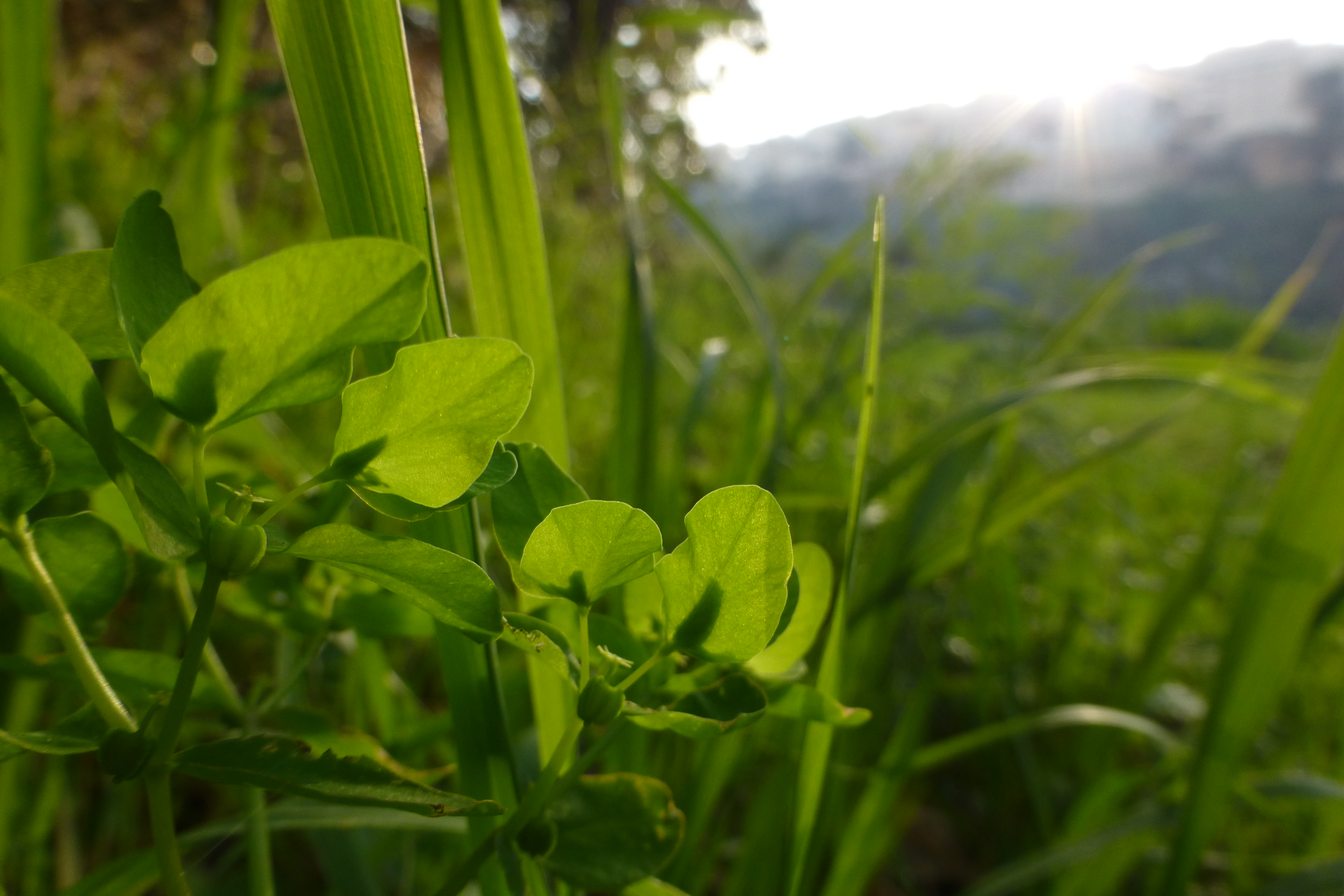 Leaves